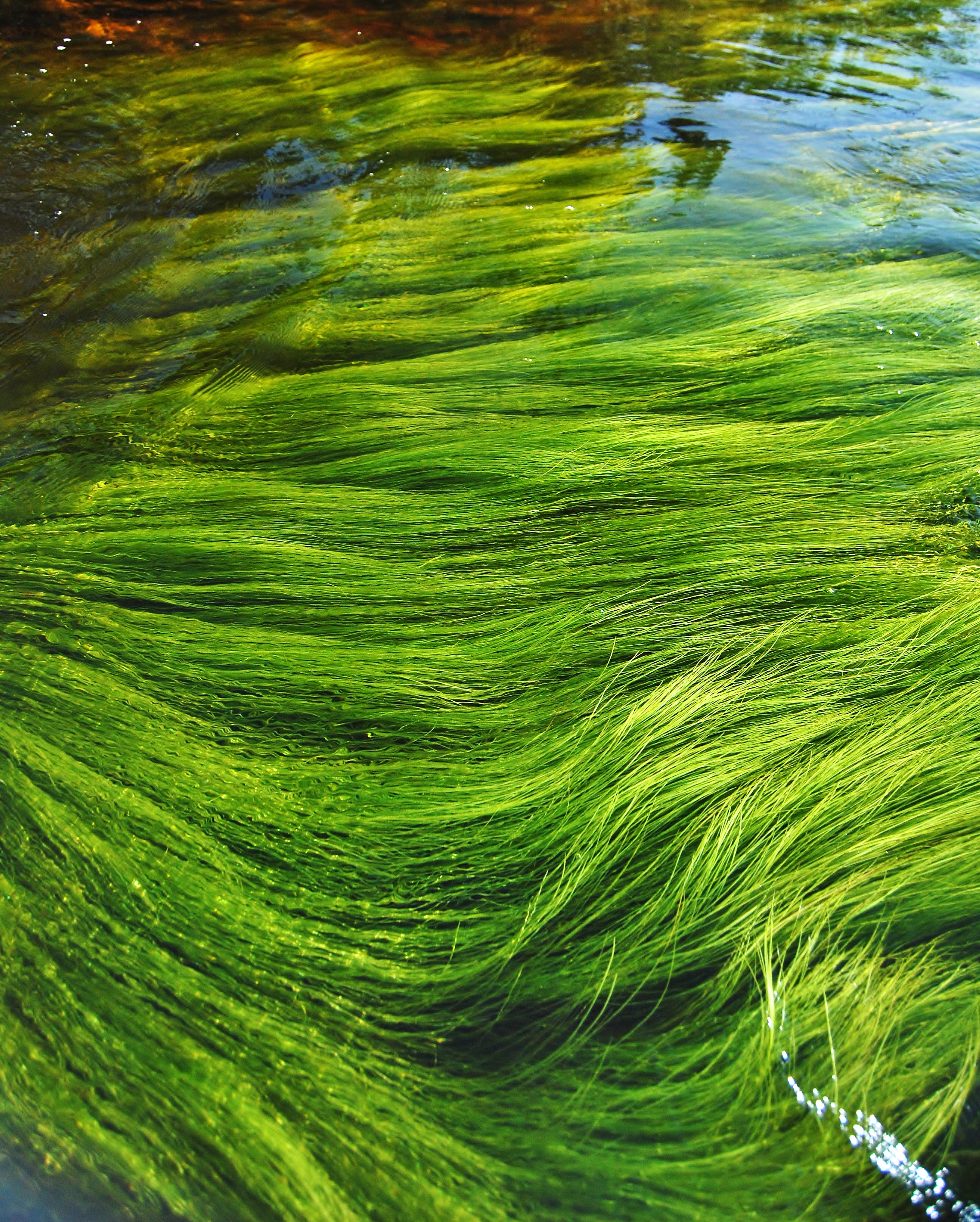 Green algae in Algonquin Provincial Park, Pen Lake, Ontario, Canada. August 26, 2008